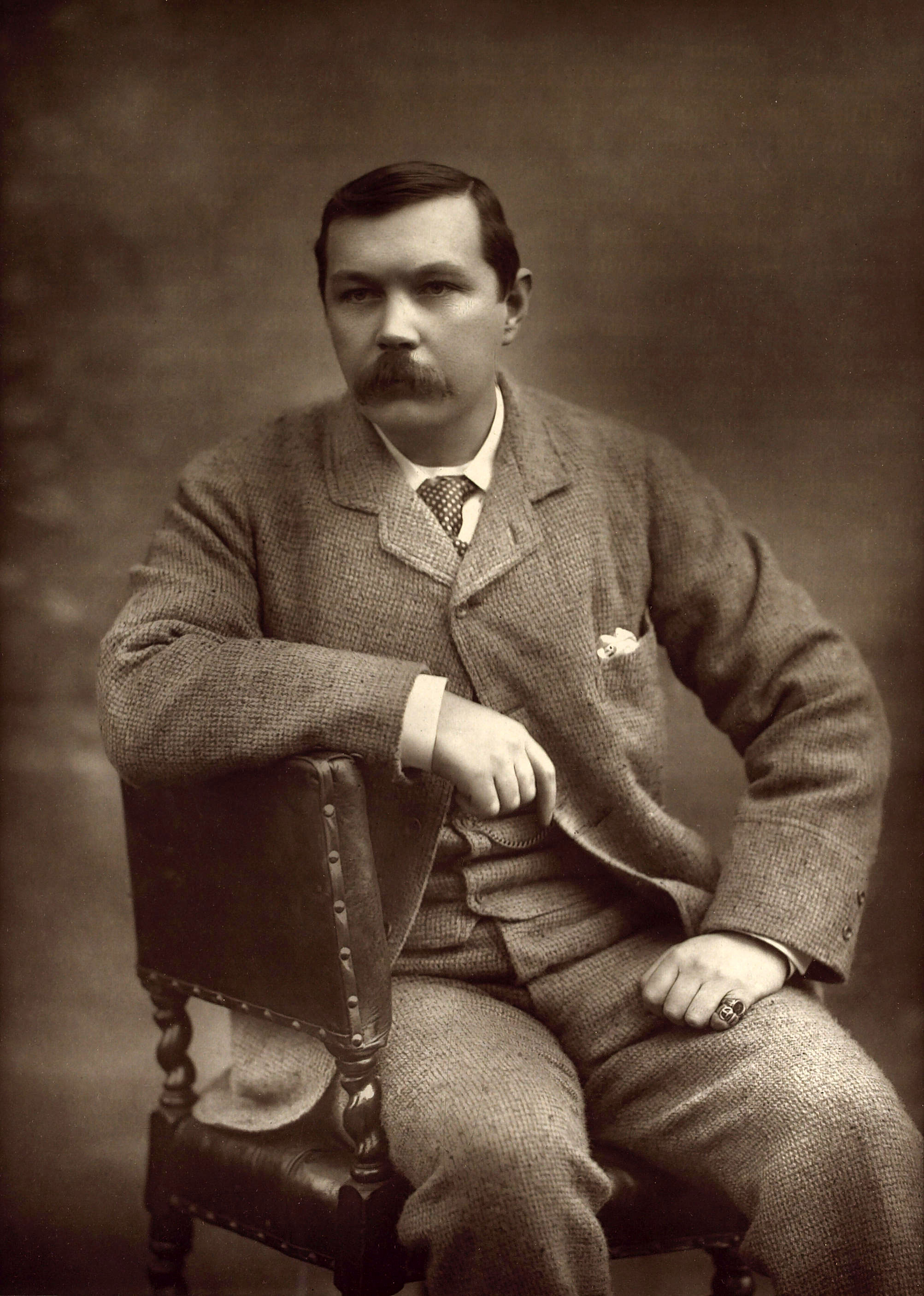 Black and white photograph of Sir Arthur Ignatius Conan Doyle by the English photographer Herbert Rose Barraud. Carbon print on card mount. 9 3/4 in. x 7 1/8 in. Courtesy of the National Portrait Gallery, London.